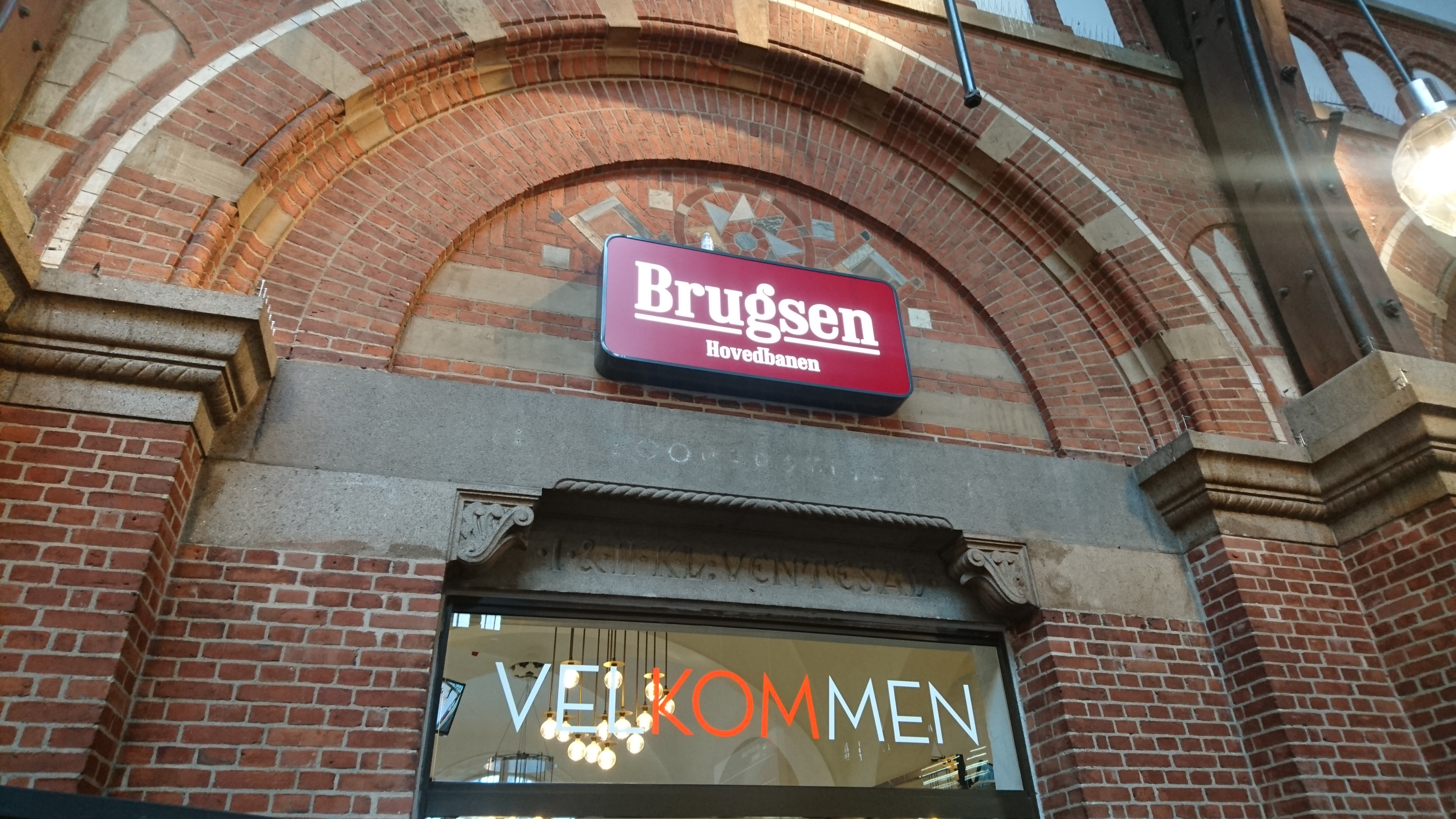 The entrance of Brugsen, inside the hall of Copenhagen Central Station. 2017